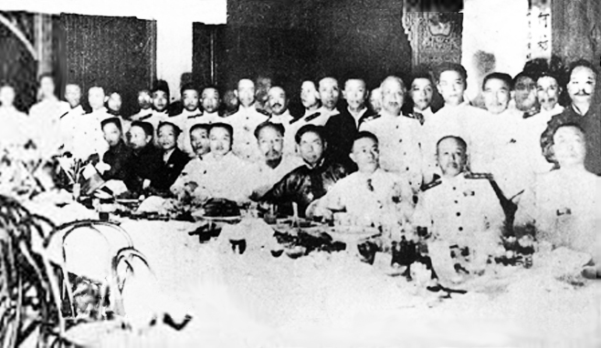 Sun Yat-sen welcome navy officers